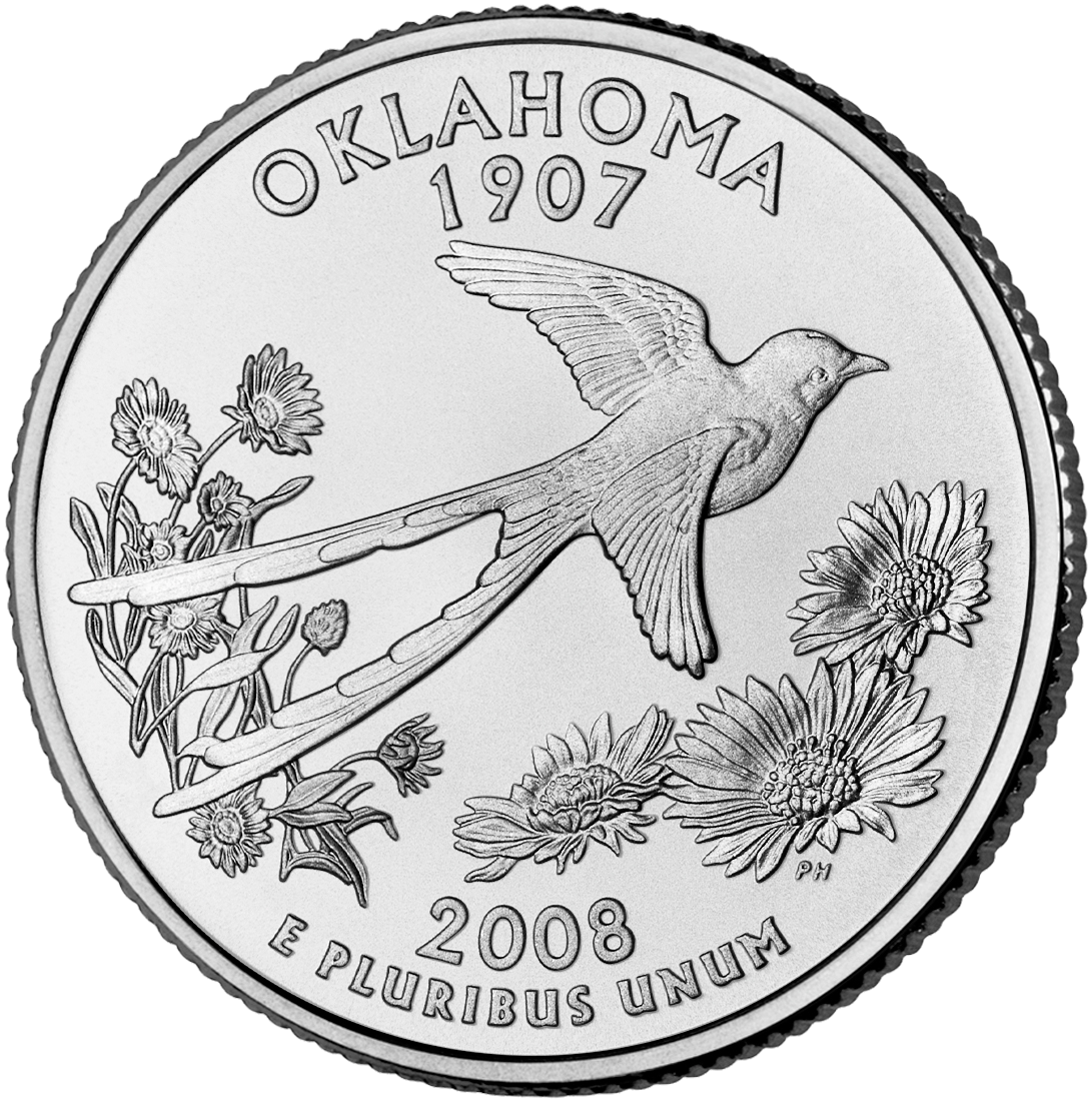 Removed background, cropped, and converted to PNG with Adobe Photoshop. This image depicts a unit of currency issued by the United States of America. If Fraudulent use of this image is punishable under applicable counterfeiting laws. As listed by the United States Secret Service at money illustrations, the Counterfeit Detection Act of 1992, Public Law 102-550, in Section 411 of Title 31 of the Code of Federal Regulations (31 CFR 411), permits color illustrations of U.S. currency provided:1. The illustration is of a size less than three-fourths or more than one and one-half, in linear dimension, of each part of the item illustrated;2. The illustration is one-sided; and3. All negatives, plates, positives, digitized storage medium, graphic files, magnetic medium, optical storage devices, and any other thing used in the making of the illustration that contain an image of the illustration or any part thereof are destroyed and/or deleted or erased after their final use. Certain coins contain copyrights licensed to the U.S. Mint and owned by third parties or assigned to and owned by the U.S. Mint [1]. For the United States Mint circulating coin design use policy, see [2]; for the policy on the 50 State Quarters, see [3]. Also: COM:ART #Photograph of an old coin found on the Internet